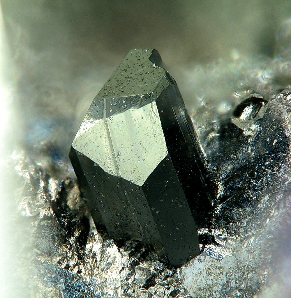 Seligmannite Locality: Palomo Mine, Castrovirreyna Province, Huancavelica Department, Peru (Locality at ) Picture width 1 mm. Collection and photograph Christian Rewitzer